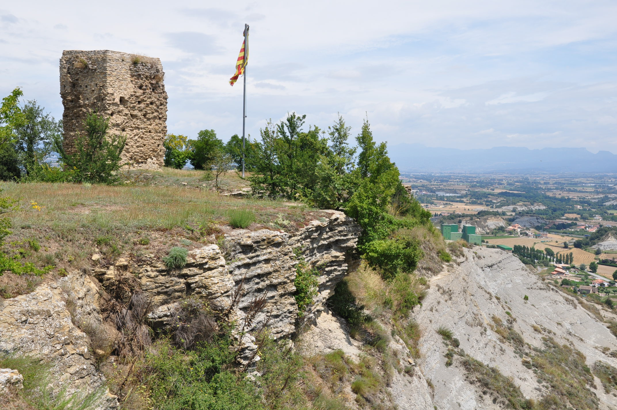 The castle of Tona and the Plain of Vic (Tona, Catalonia, Spain)